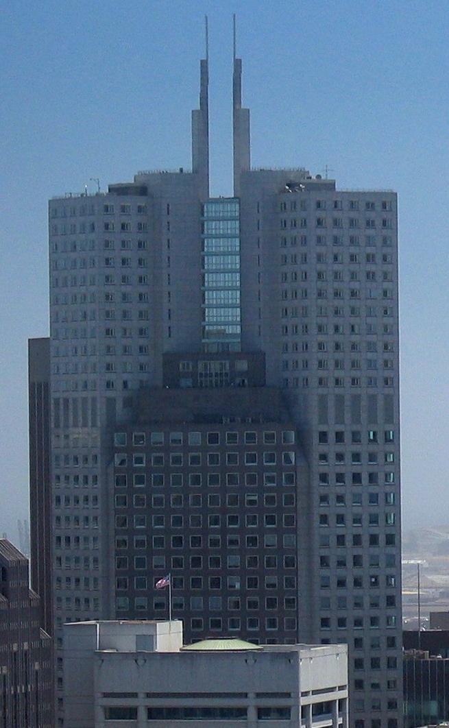 345 California Street, the 3rd-tallest building in San Francisco, California, United States. Image taken from the Coit Tower